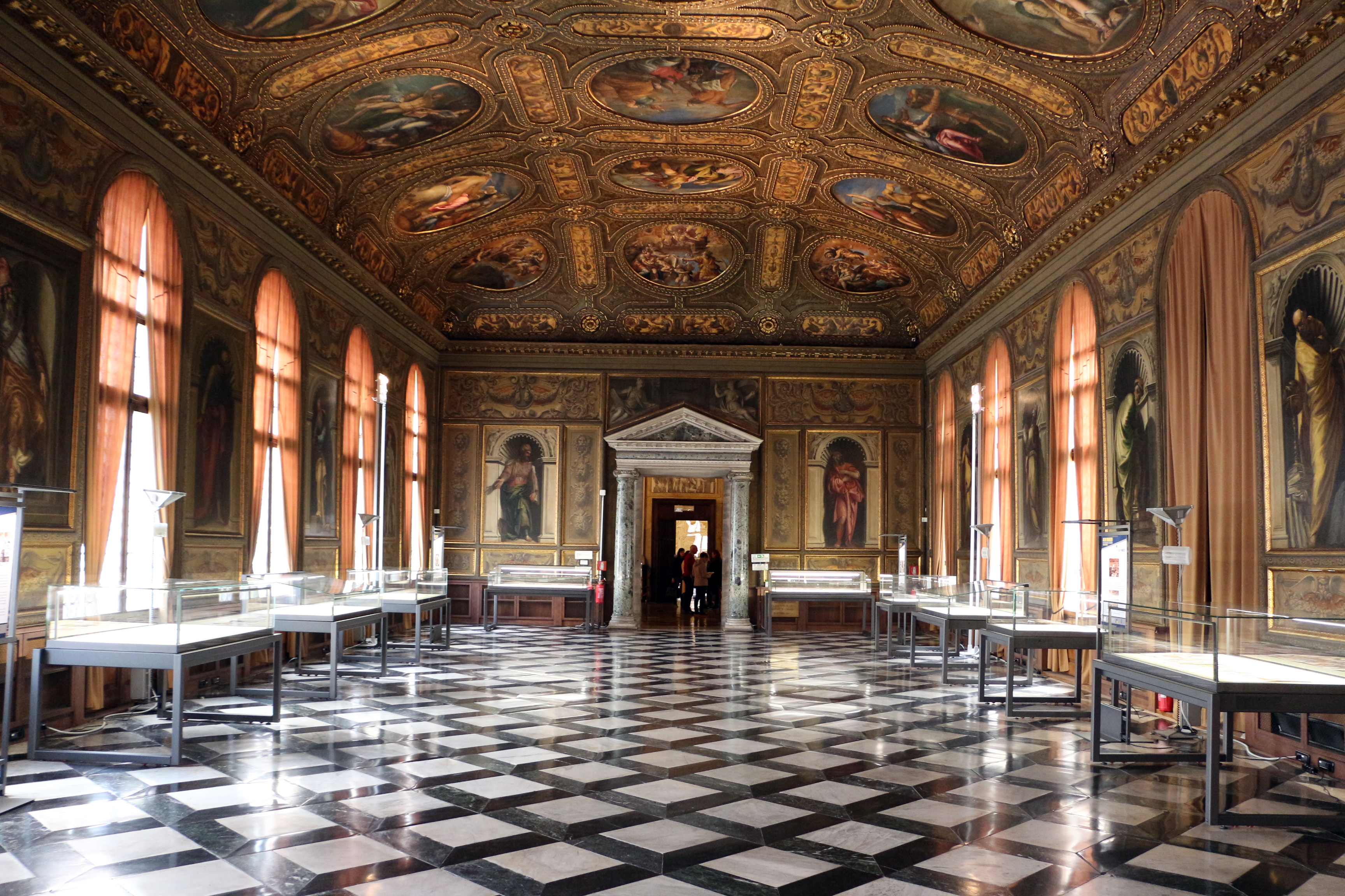 Biblioteca Nazionale Marciana (Venice)